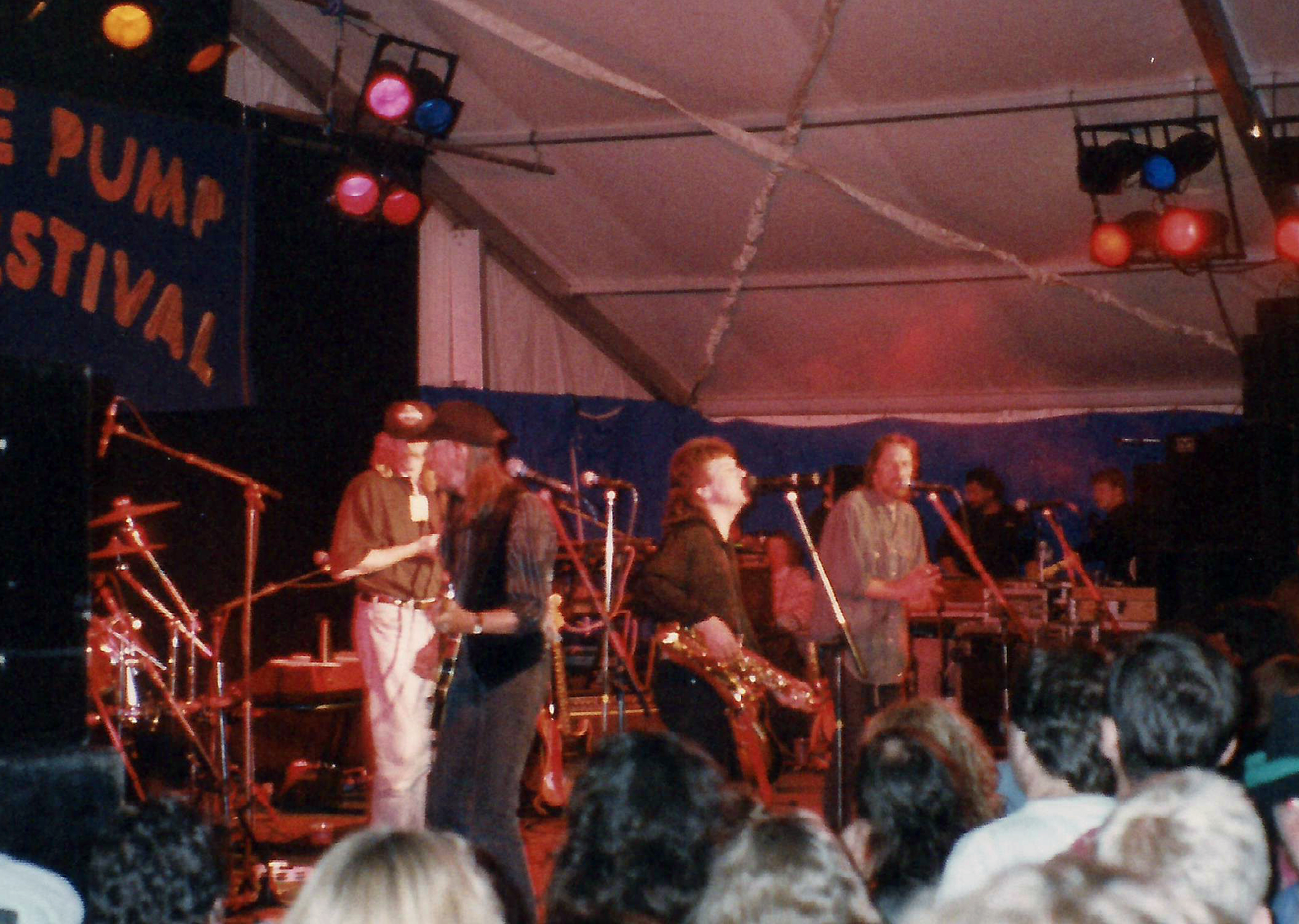 Lindisfarne Live at the Trowbridge Village Pump Festival, 1991